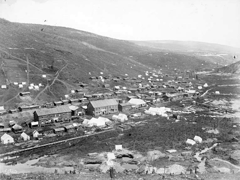 Bird's-eye view of Grand Forks from Gold Hill, Yukon Territory, ca. 1898. It was a mining community at Bonanza Creek a few miles from Dawon City during the Klondike Gold Rush and until the mid 1920s.